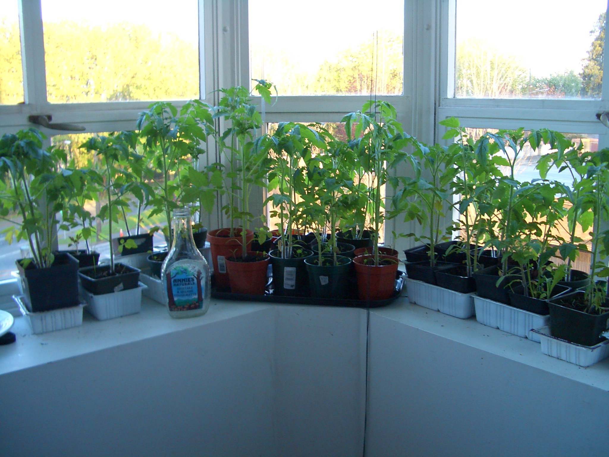 Tomato seedlings (a number of tomato varieties). The seeds were planted in the first days of March, and sprouted within a week. Photo taken on April 20, after the plants have grown for almost 1.5 month on a sunny office window (in Seattle, WA) at room temperature.